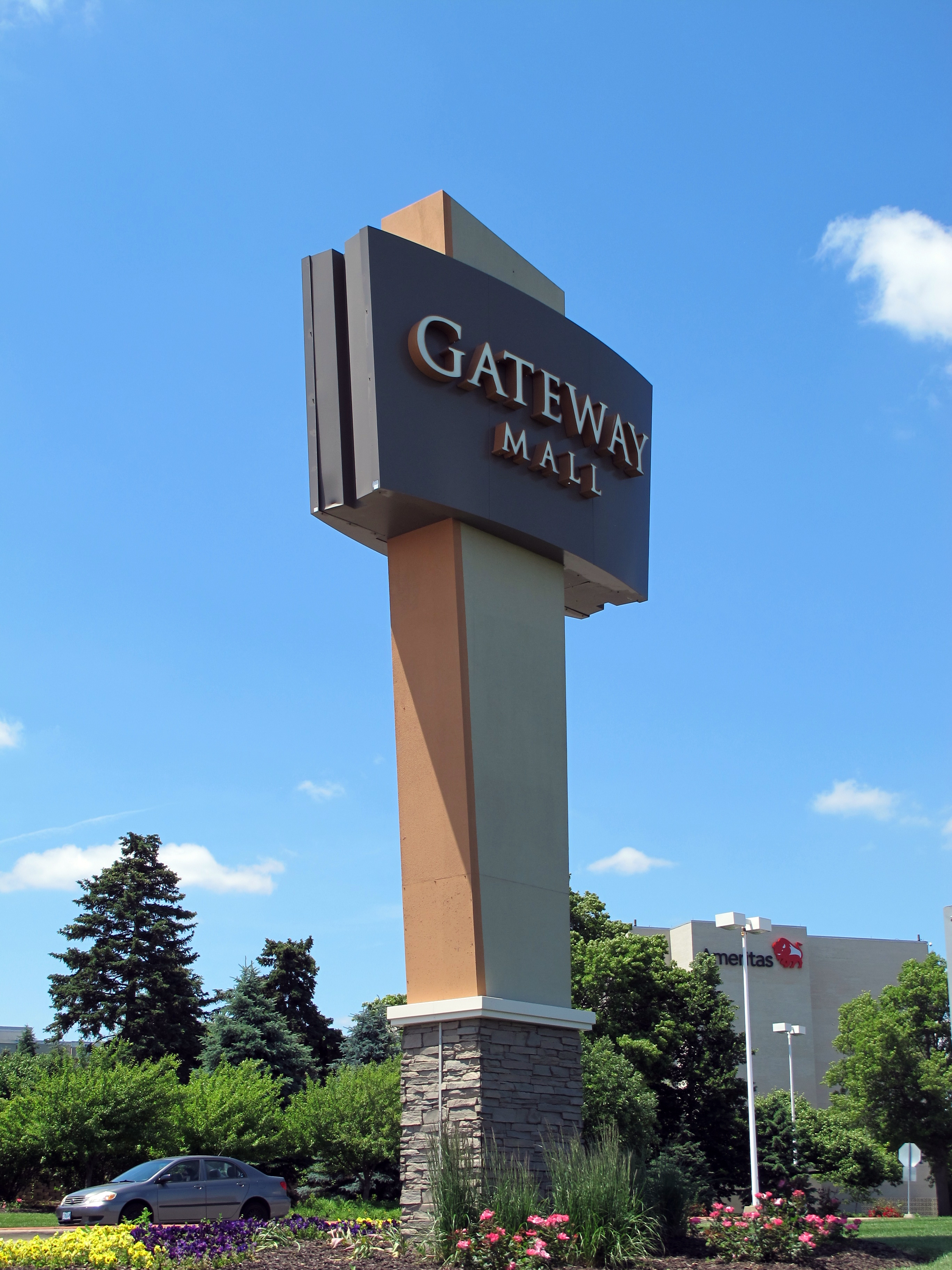 Photo of a Gateway Mall sign, as seen from the corner of Lyncrest Drive & "O" Street in Lincoln, Nebraska. Photo is taken near the northeast corner of the intersection (just slightly east), facing northwest towards the sign.